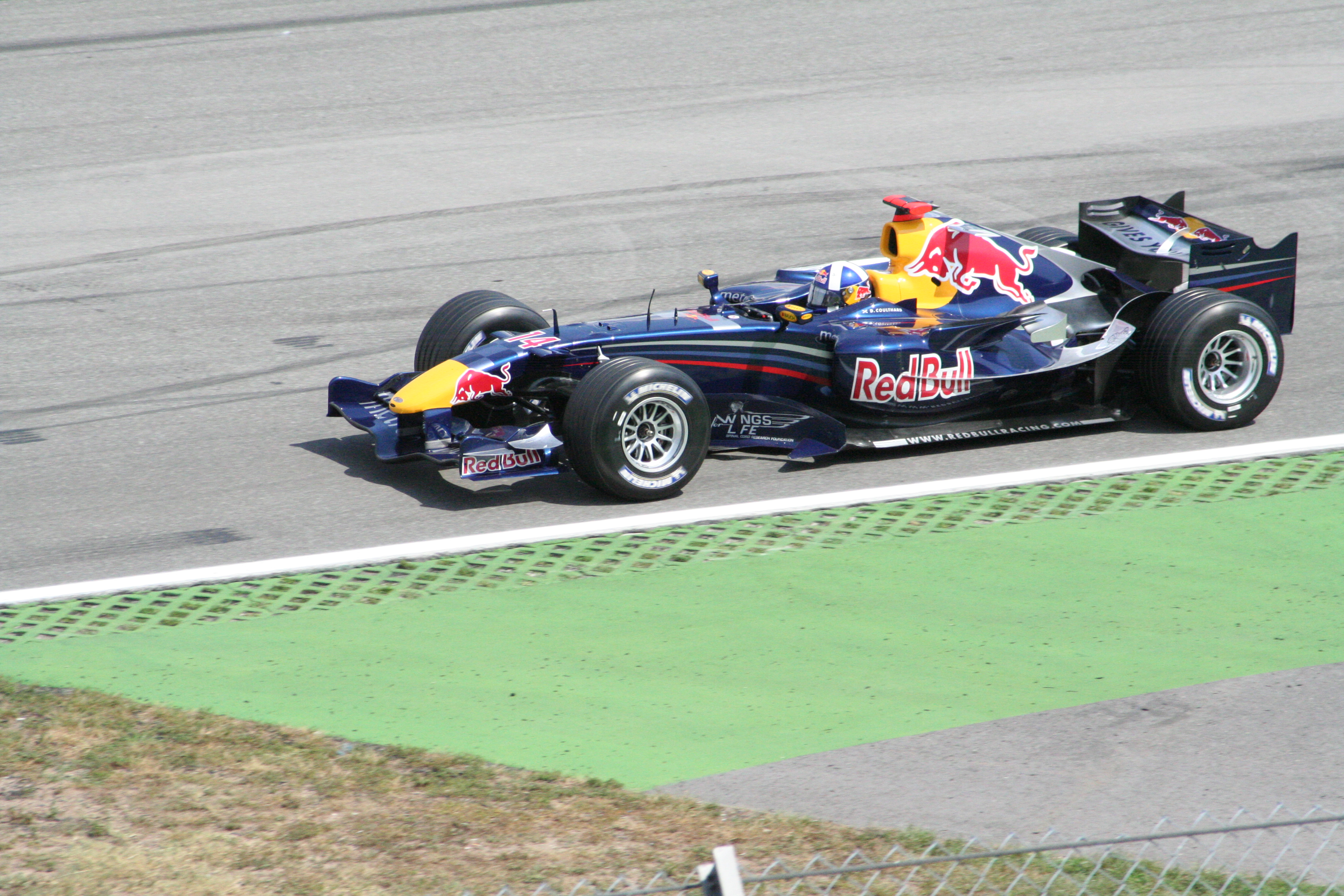 David Coulthard. Formel-1 Rennwagen "RedBull-Racing" Hockenheim 2006 - Nr. 001 Formel-1 racing car "RedBull-Racing" Hockenheim 2006 - No. 001